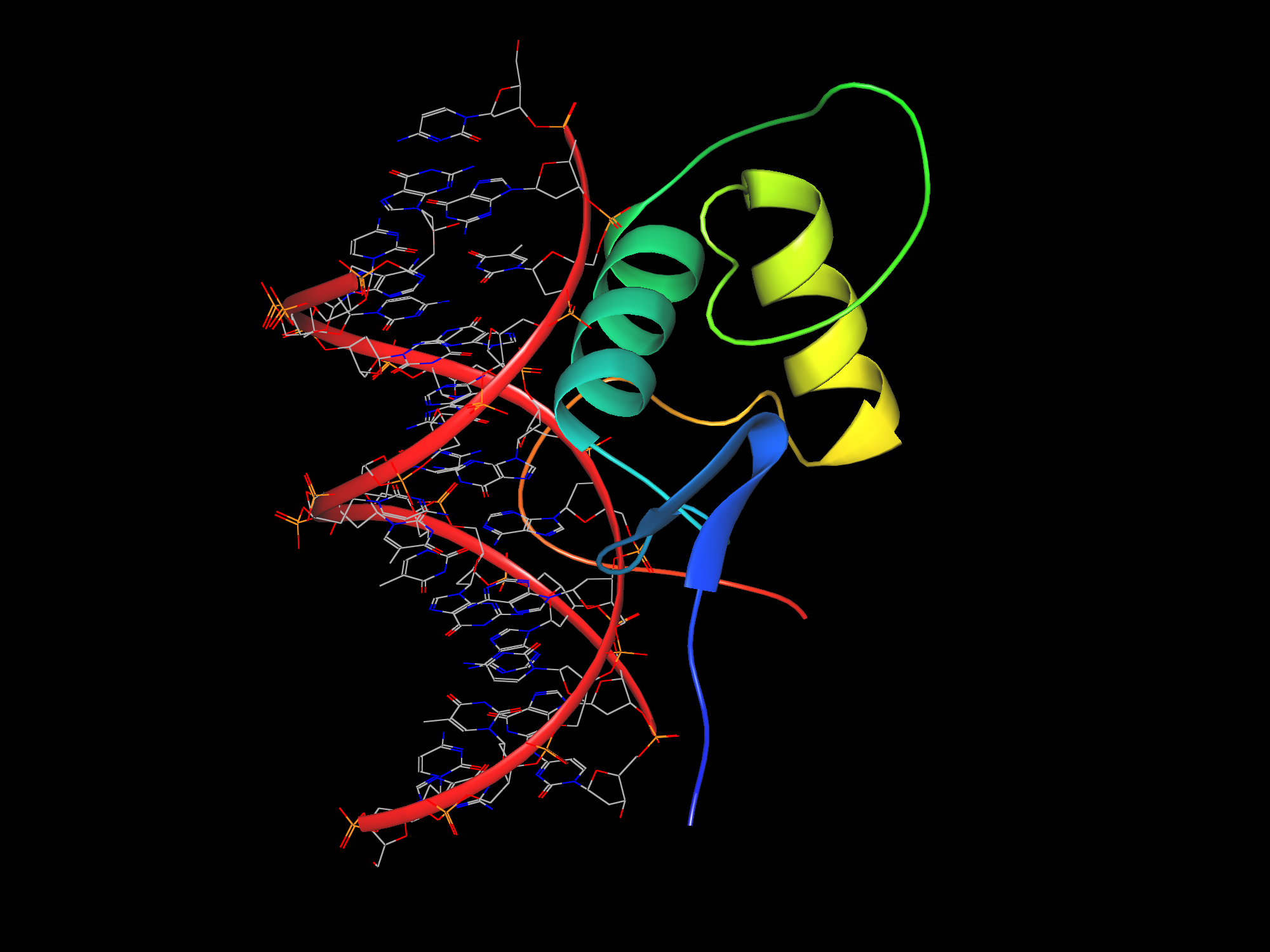 Estrogen receptor beta complex with DNA